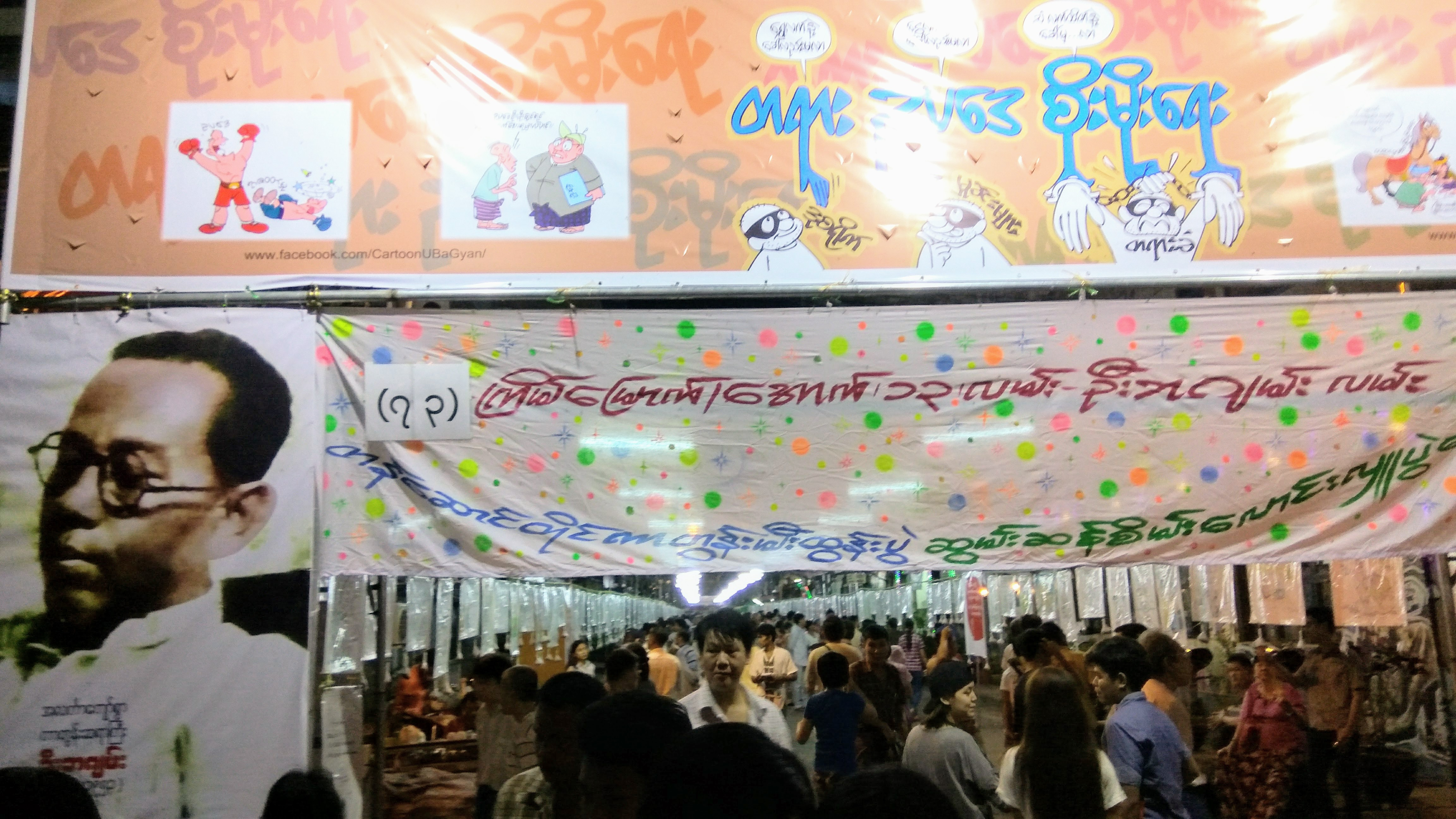 (73rd) Anniversary U Ba Gyan Street (Lower 13 Street) Cartoon Festival, Lanmataw Township, Yangon မြန်မာဘာသာ: (၇၃)ကြိမ်မြောက် ဦးဘဂျမ်းလမ်း တန်ဆောင်တိုင် ကာတွန်းမီးထွန်းပွဲ၊ အောက် (၁၃)လမ်း၊ လမ်းမတော်မြို့နယ်၊ ရန်ကုန်